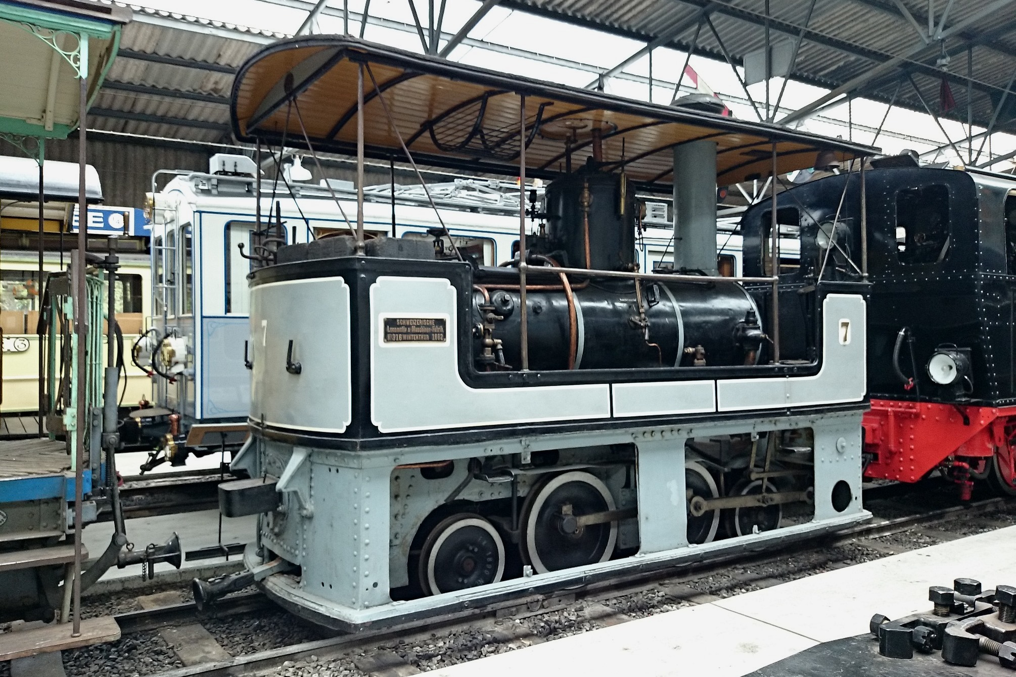 Steam tramway locomotive from Mulhouse by Blonay-Chamby in Switzerland.